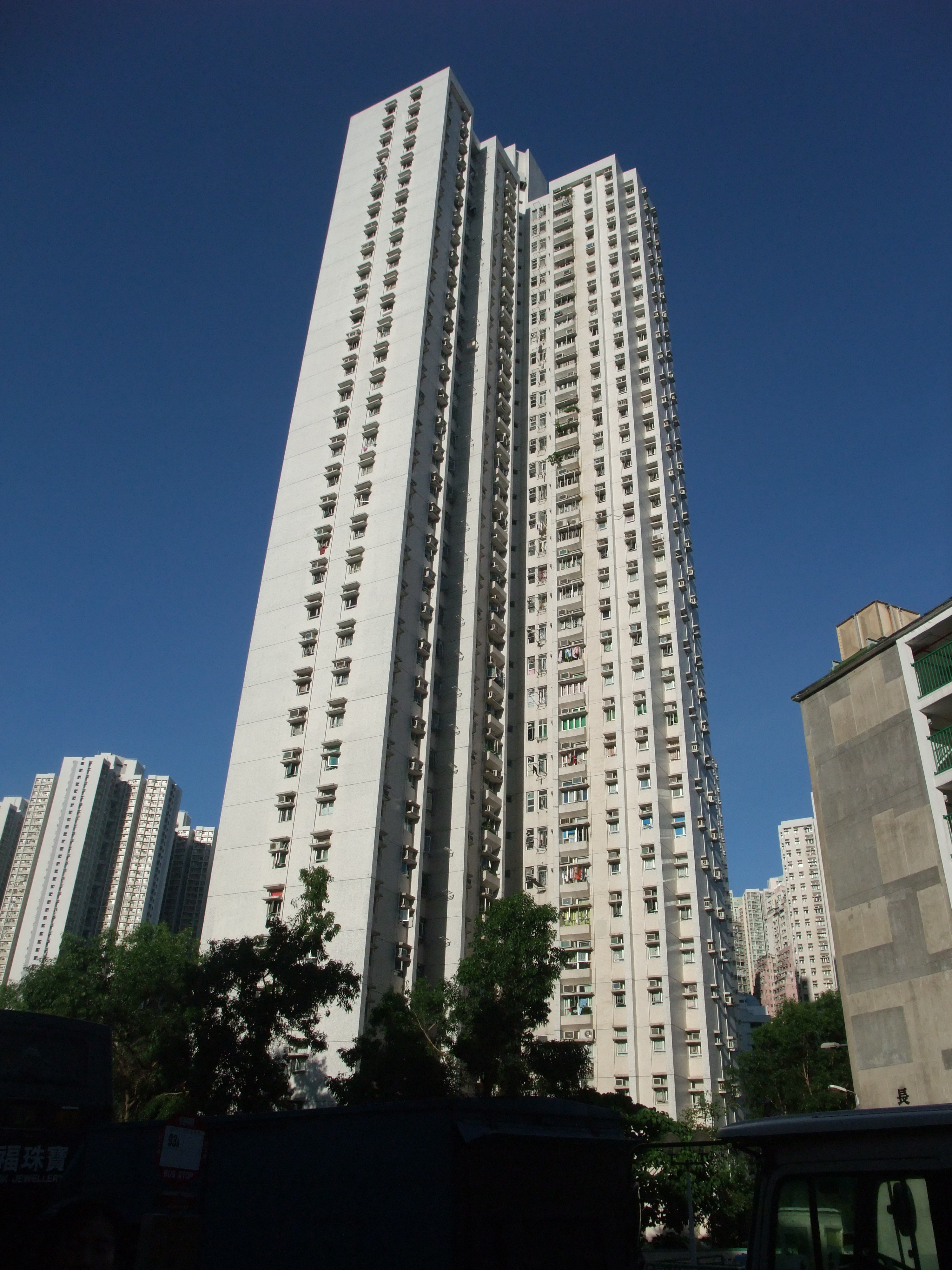 Photo of Po Yiu House, Po Pui Court